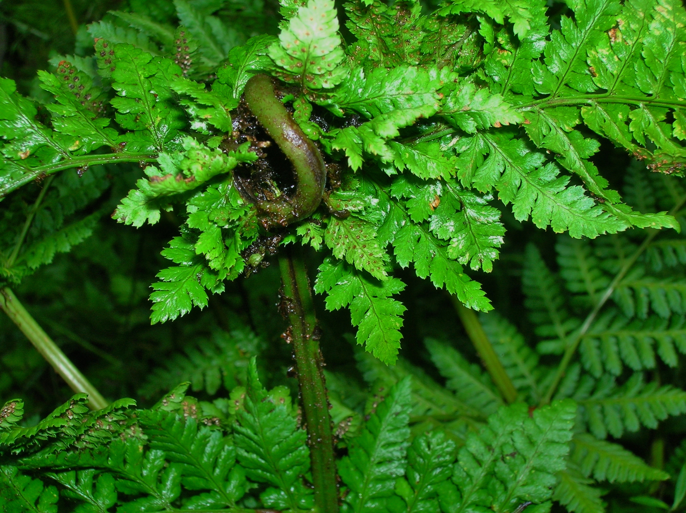 Chirosia betuleti, Knotting Gall on the Broad buckler fern Dryopteris dilatata, showing the rachis. Barrmill, Scotland.